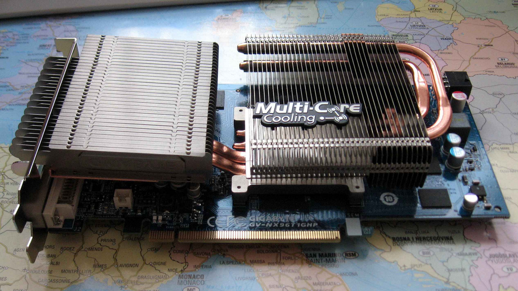 Gigabyte GeForce 9600GT video card GV-NX96T1GHP